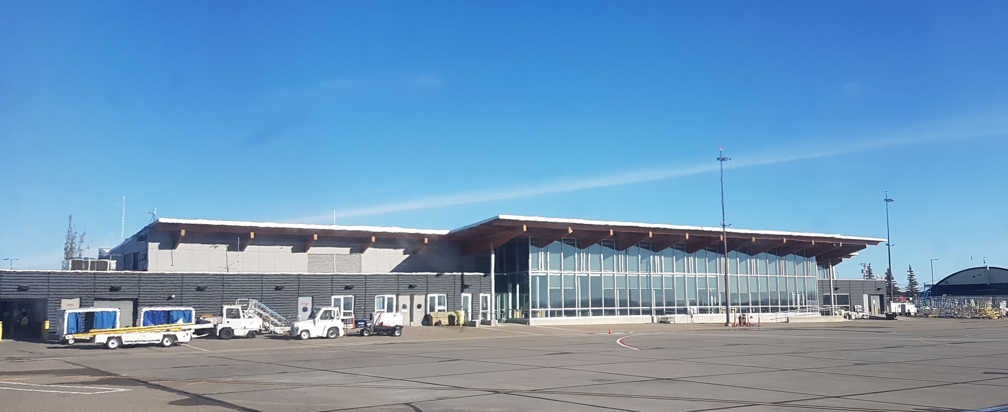 Fort St. John Airport / North Peace Regional Airport (YXJ) in Fort St. John, British Columbia, Canada.